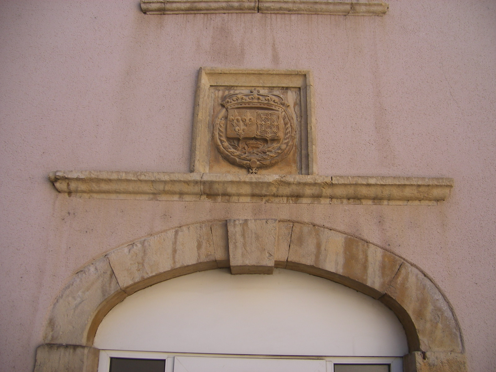 Mende - coat of arms of the French Kingdom